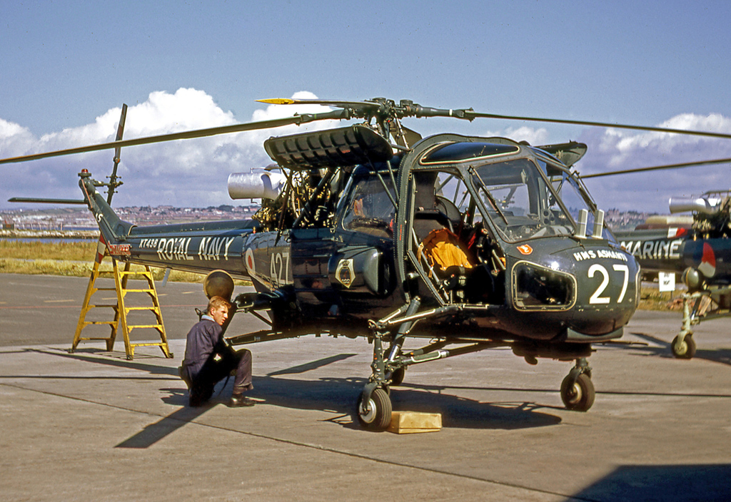 Westland Wasp HAS.1 XT438 AS-427 of 829 NAS based on HMS Ashanti at RNAS Portland in 1967